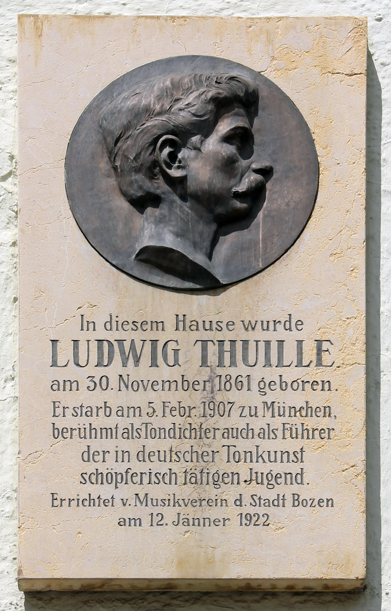 Memorial plaque, Ludwig Thuille, Mustergasse 6, Bozen, Italy